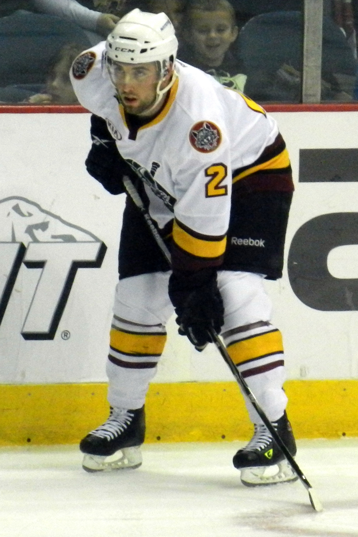 Brad Hunt playing for the American Hockey League's Chicago Wolves